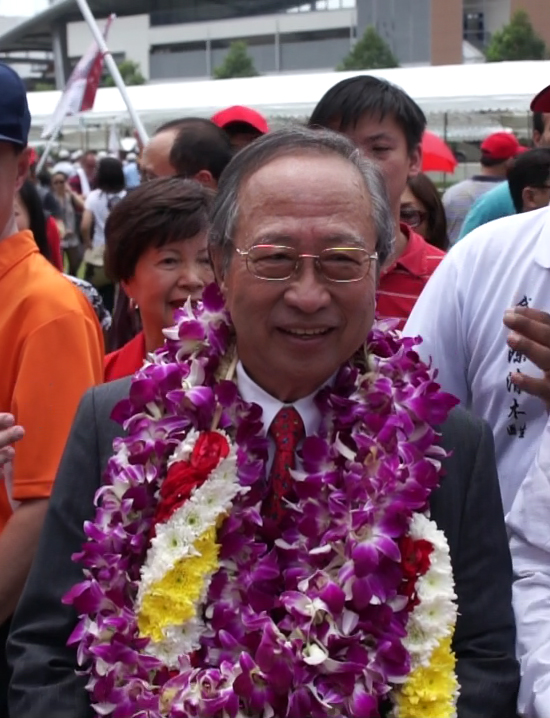 Dr. Tan Cheng Bock at the Nomination Centre filing his nomination papers for the Singaporean presidential election, 2011.